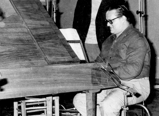 German harpsichordist, organist and musicologist Wilhelm Krumbach